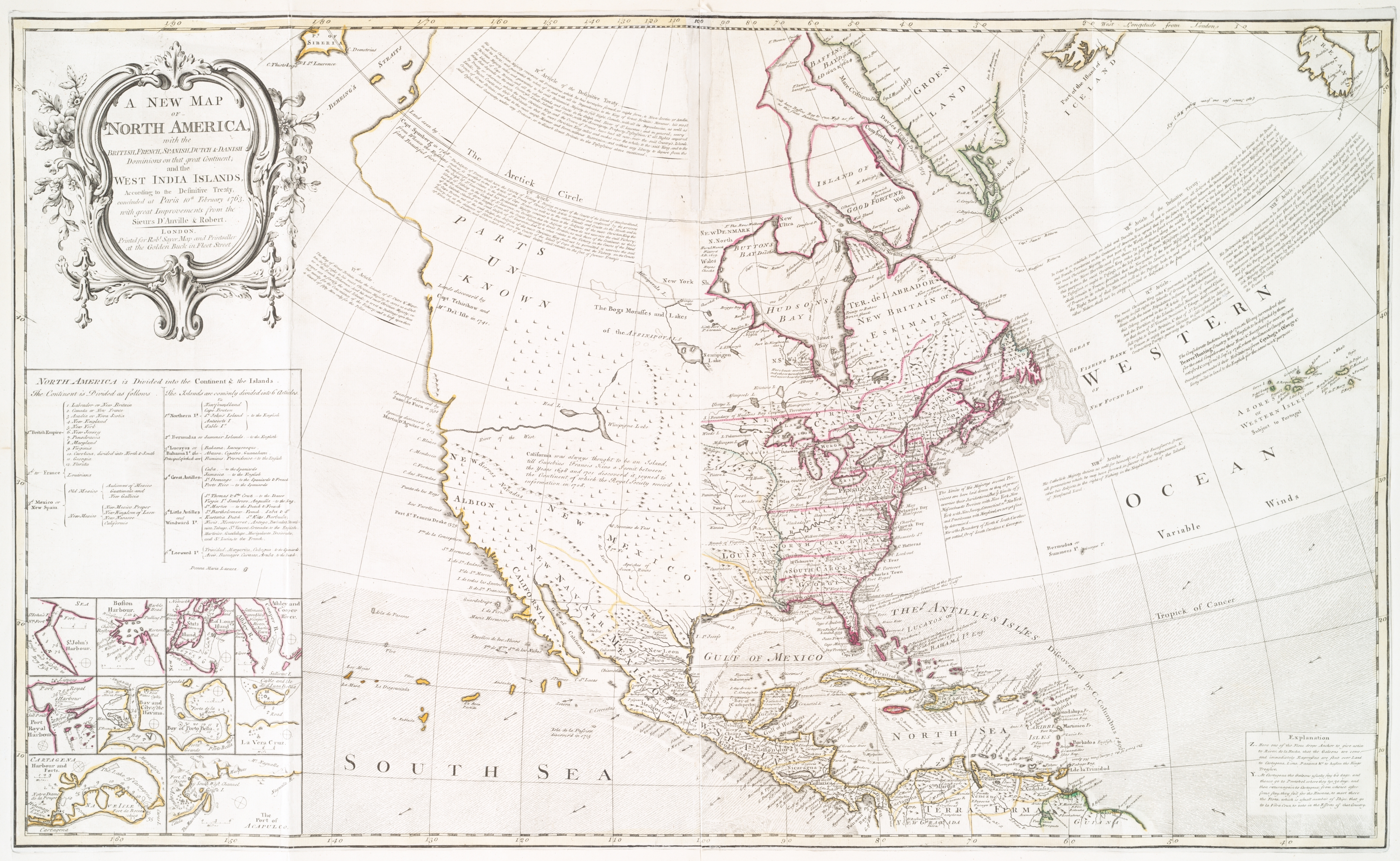 Cropped and rotated version of a map already in Wikimedia Commons at File:A new map of North America - with the British, French, Spanish, Dutch & Danish dominions on that great continent, and the_West_India_Islands,_according_to_the_definitive_treaty_concluded_at_Paris_10th_NYPL434522.tiff